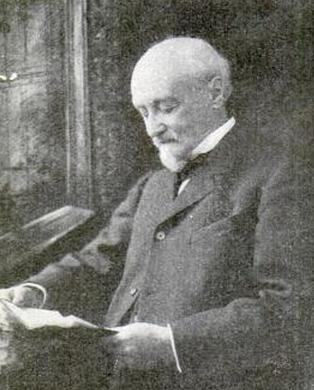 A photographic portrait of Octave Chanute (probably after 1900).